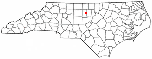 Category:North Carolina Dot Maps